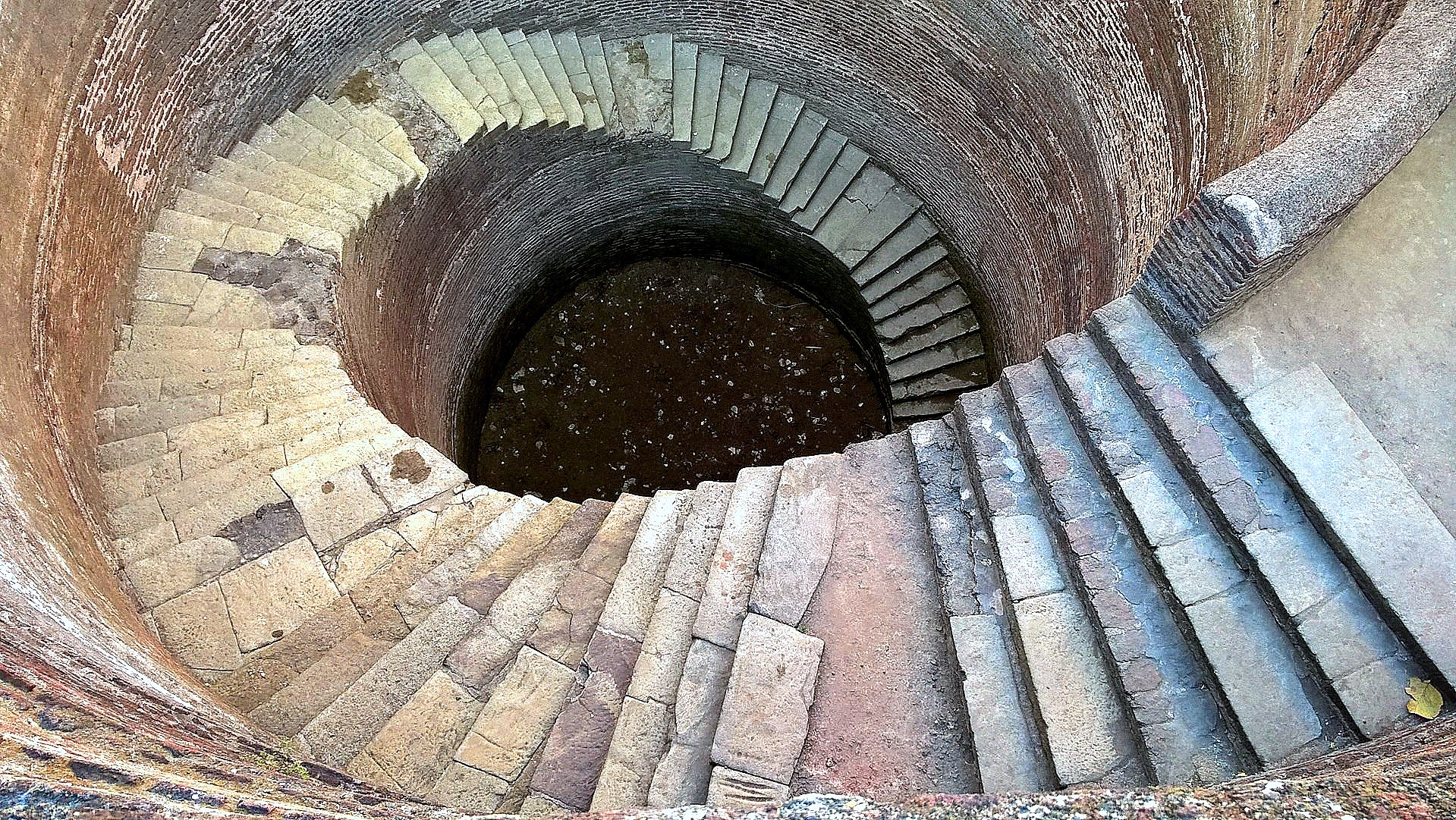 Helical step well built in the 16th century. The staircase is 1.2 m wide